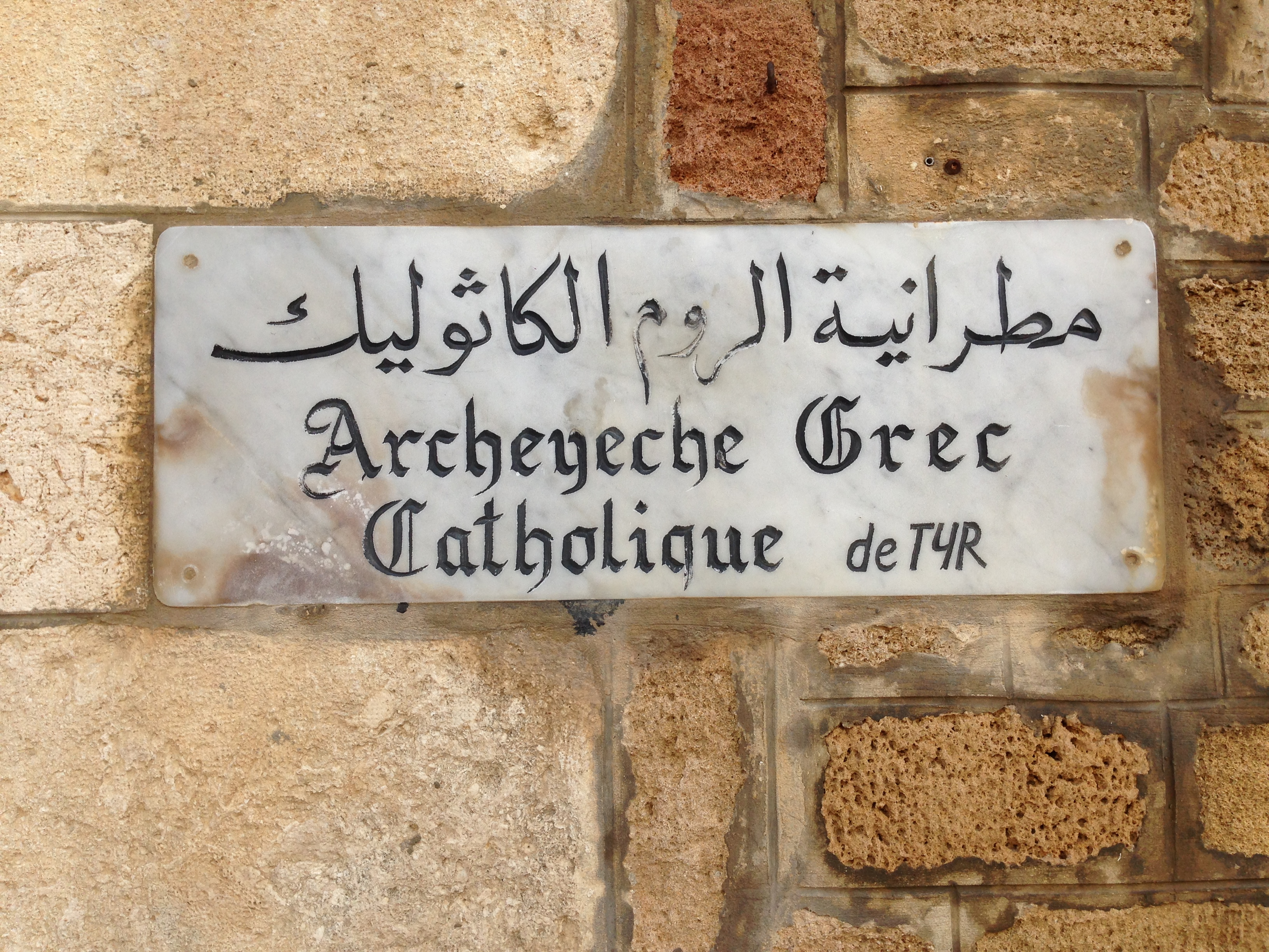 Sign at the entry gate of the Melkite Greek Catholic Archeparchy of Tyre, South Lebanon